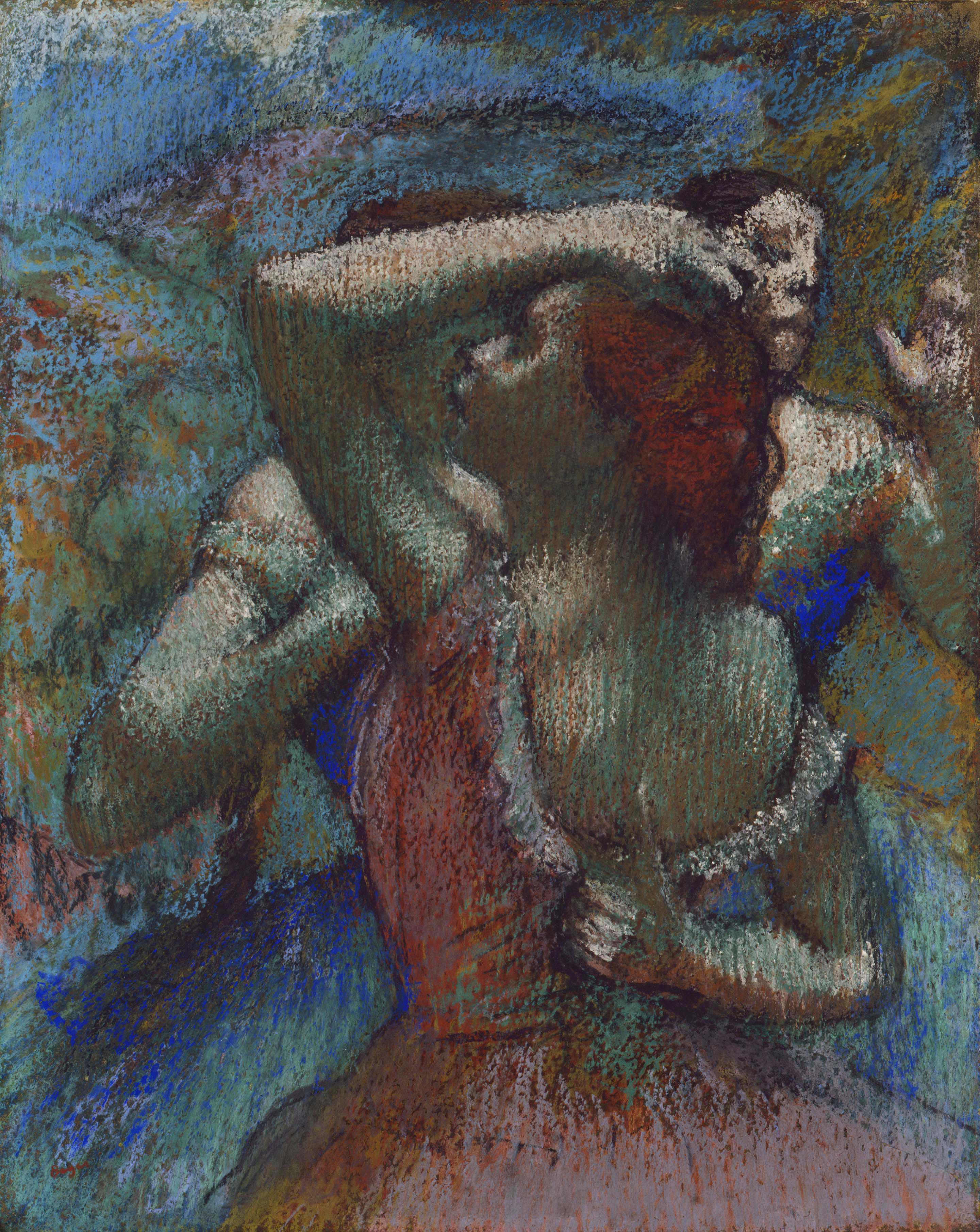 Dancers